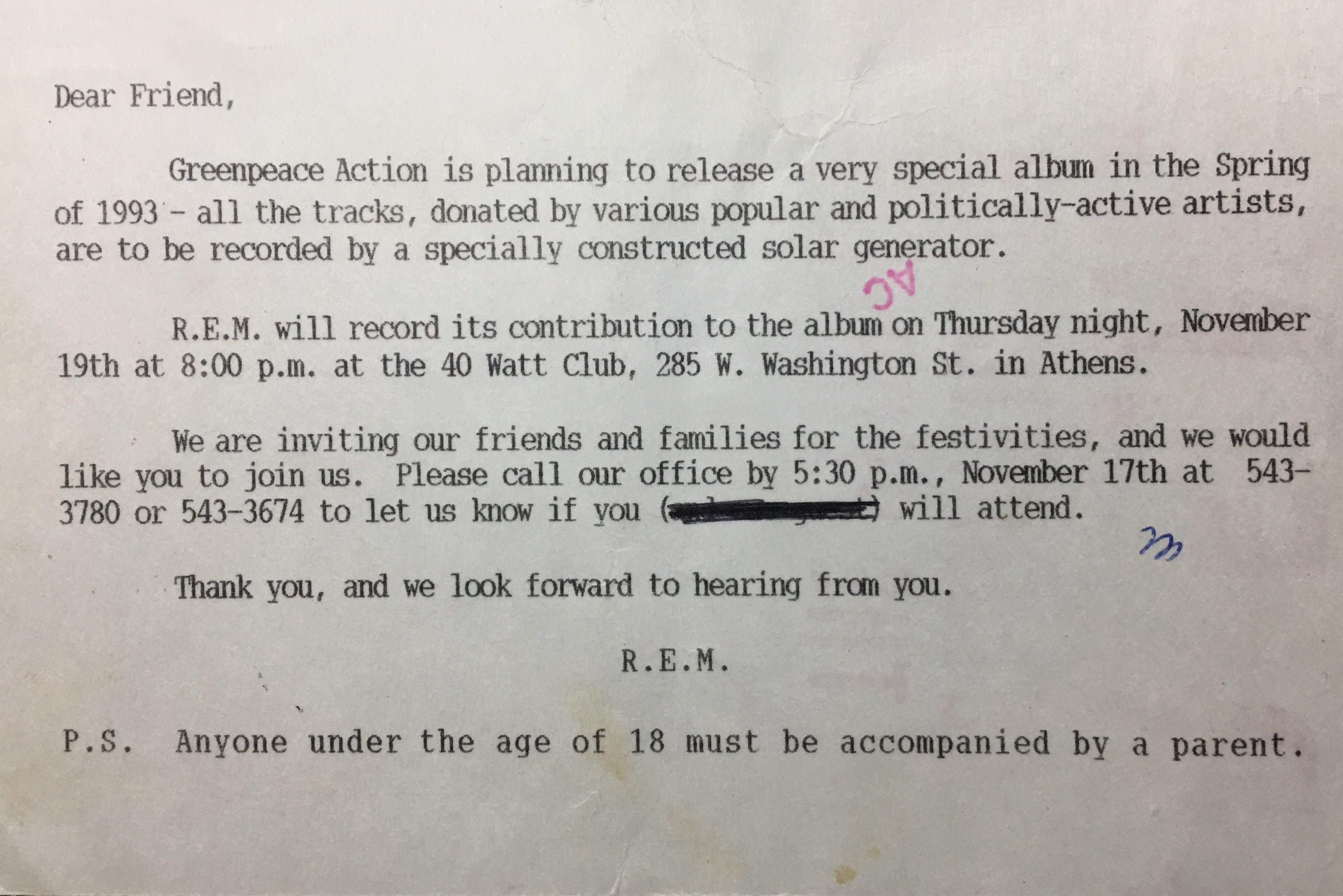 Invitation to an REM concert at the 40 Watt Club, 11/19/1992